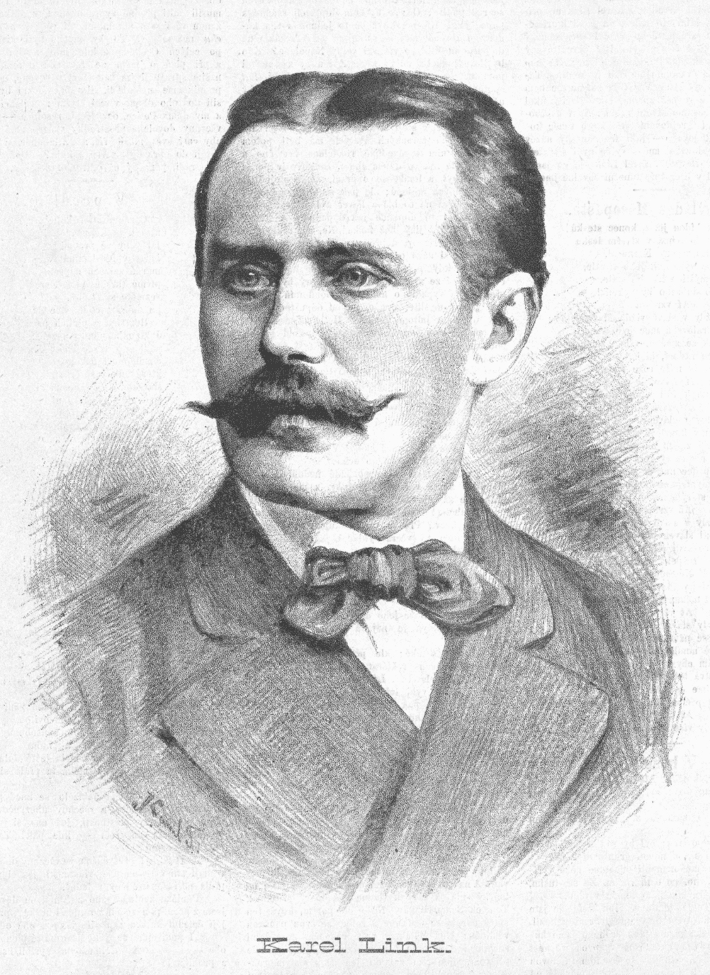 Portrait of Karel Link (1832-1911), Czech teacher of dance, director of a dance school and composer.